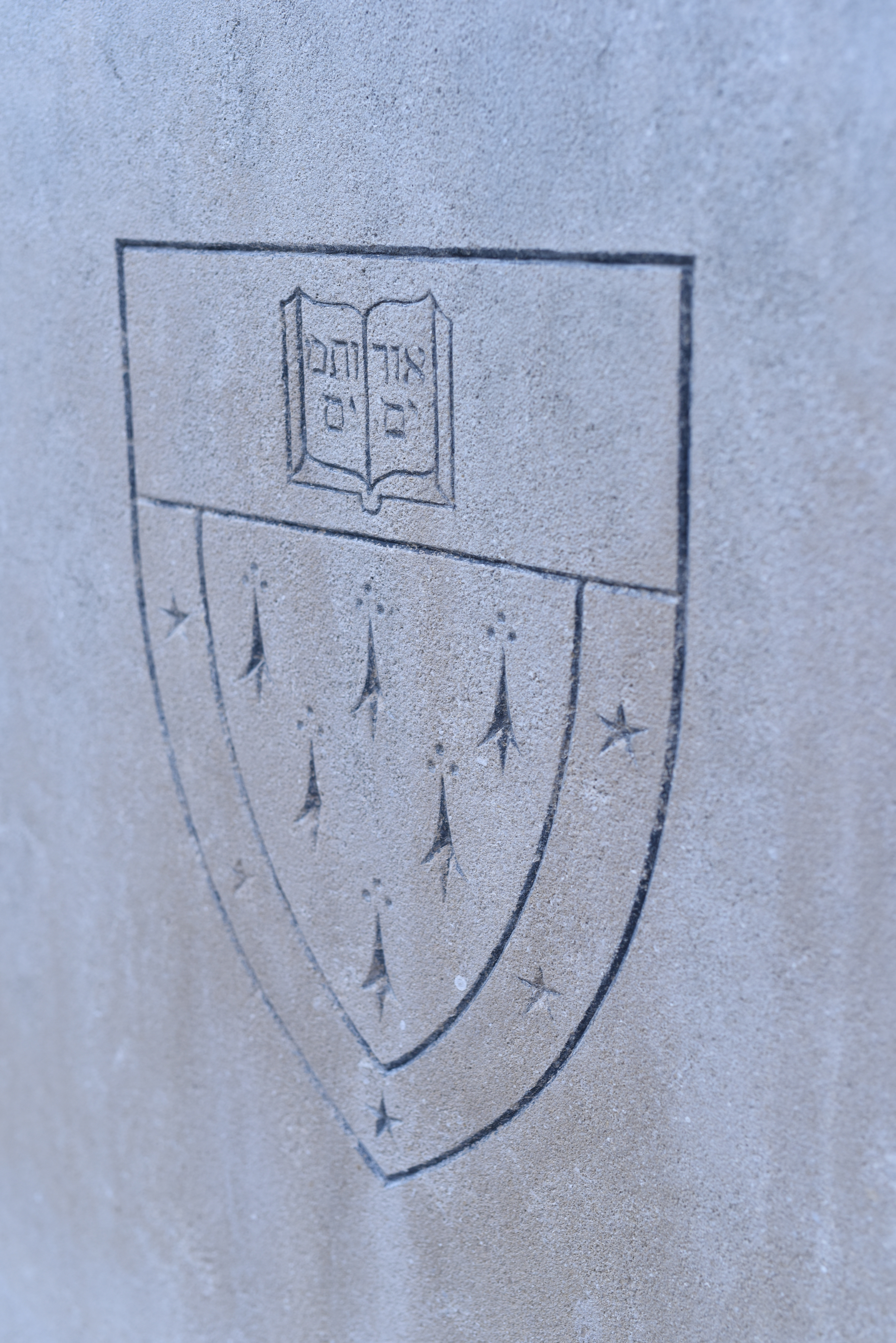 Yale III